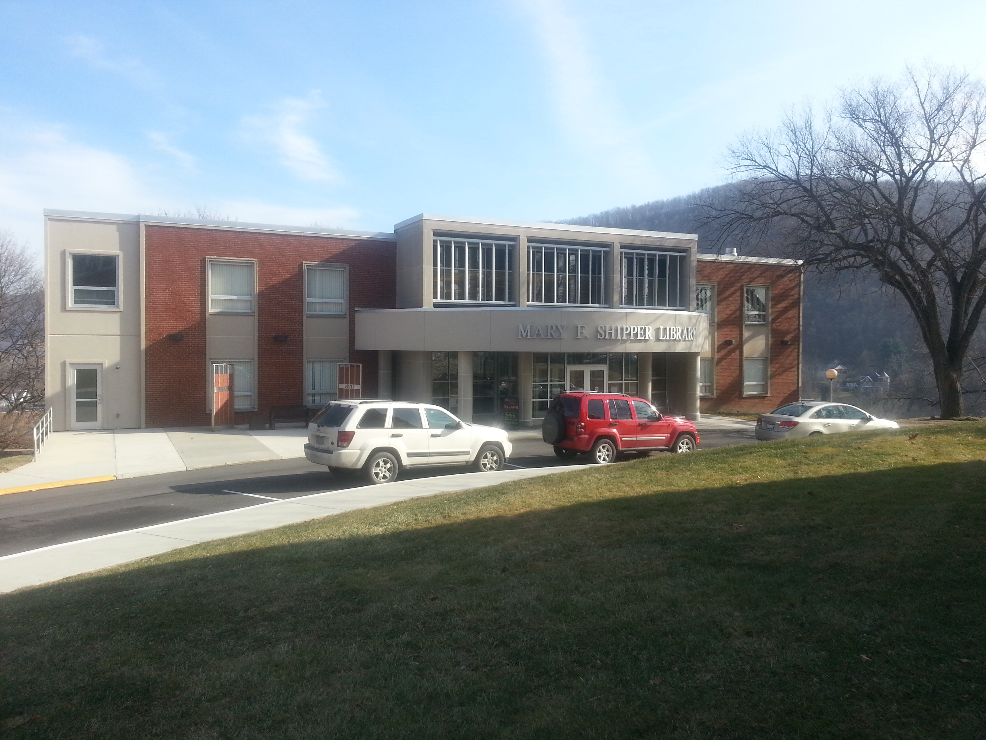 Mary F. Shipper Library, WVU Potomac State College, Keyser, W. Va.